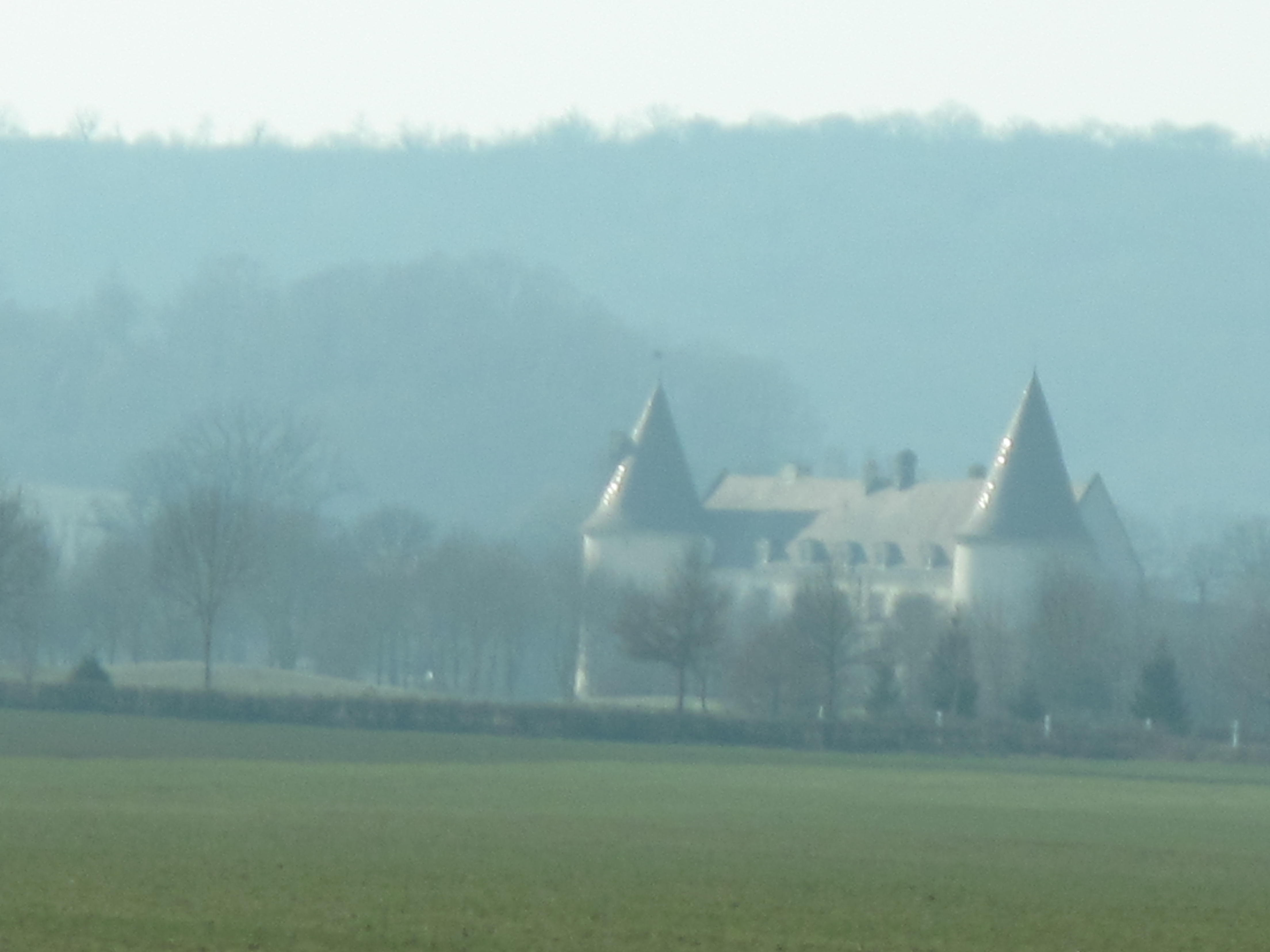 The castle of Chailly-sur-Armançon seen from the on French highway A6.